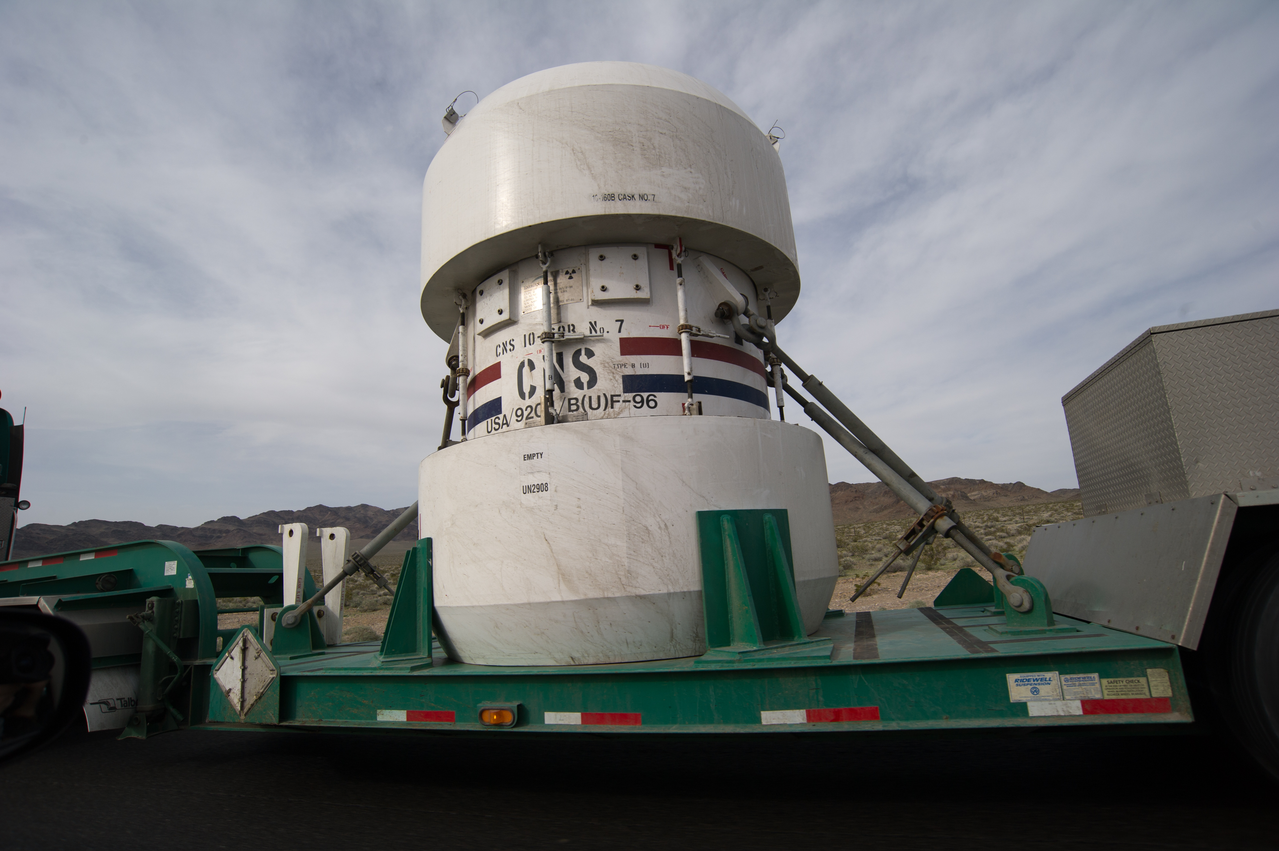 Nuclear Waste Container coming out of Nevada Test Site on public roads, March 2010